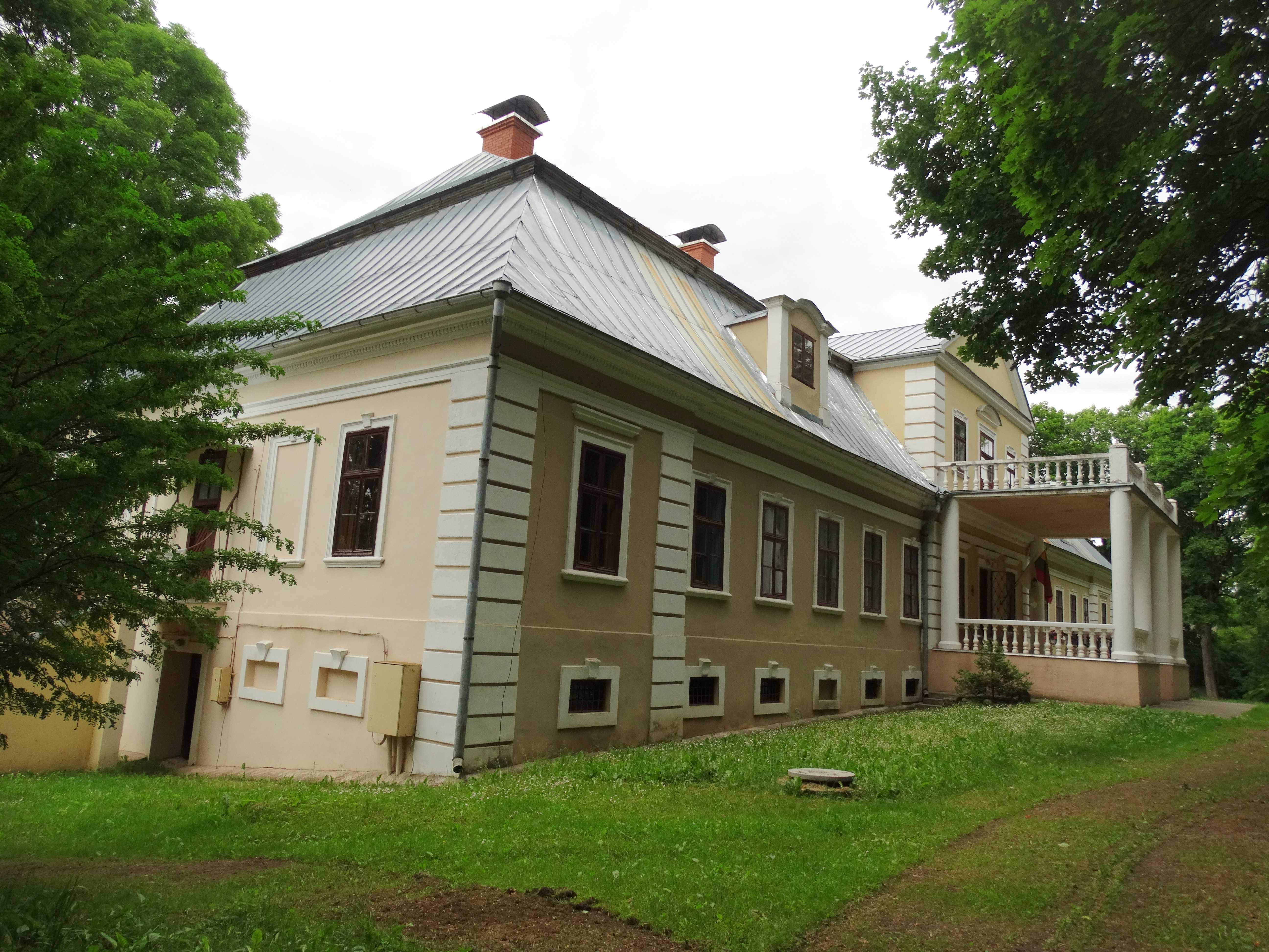 Biliūnai manor, Raseiniai district, Lithuania